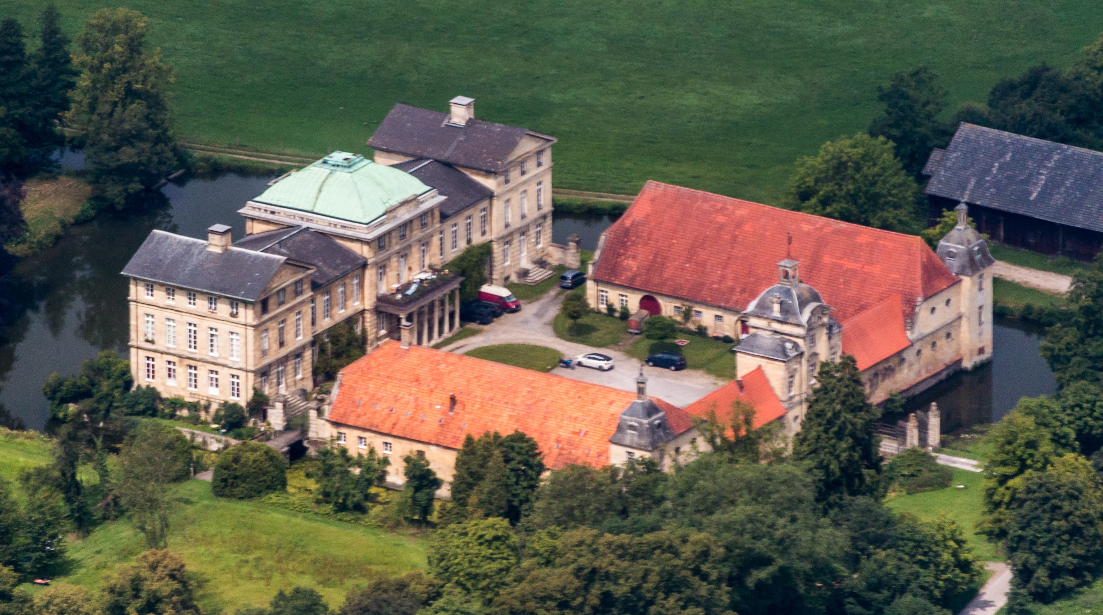 Stapel Manor, Havixbeck, North Rhine-Westphalia, Germany